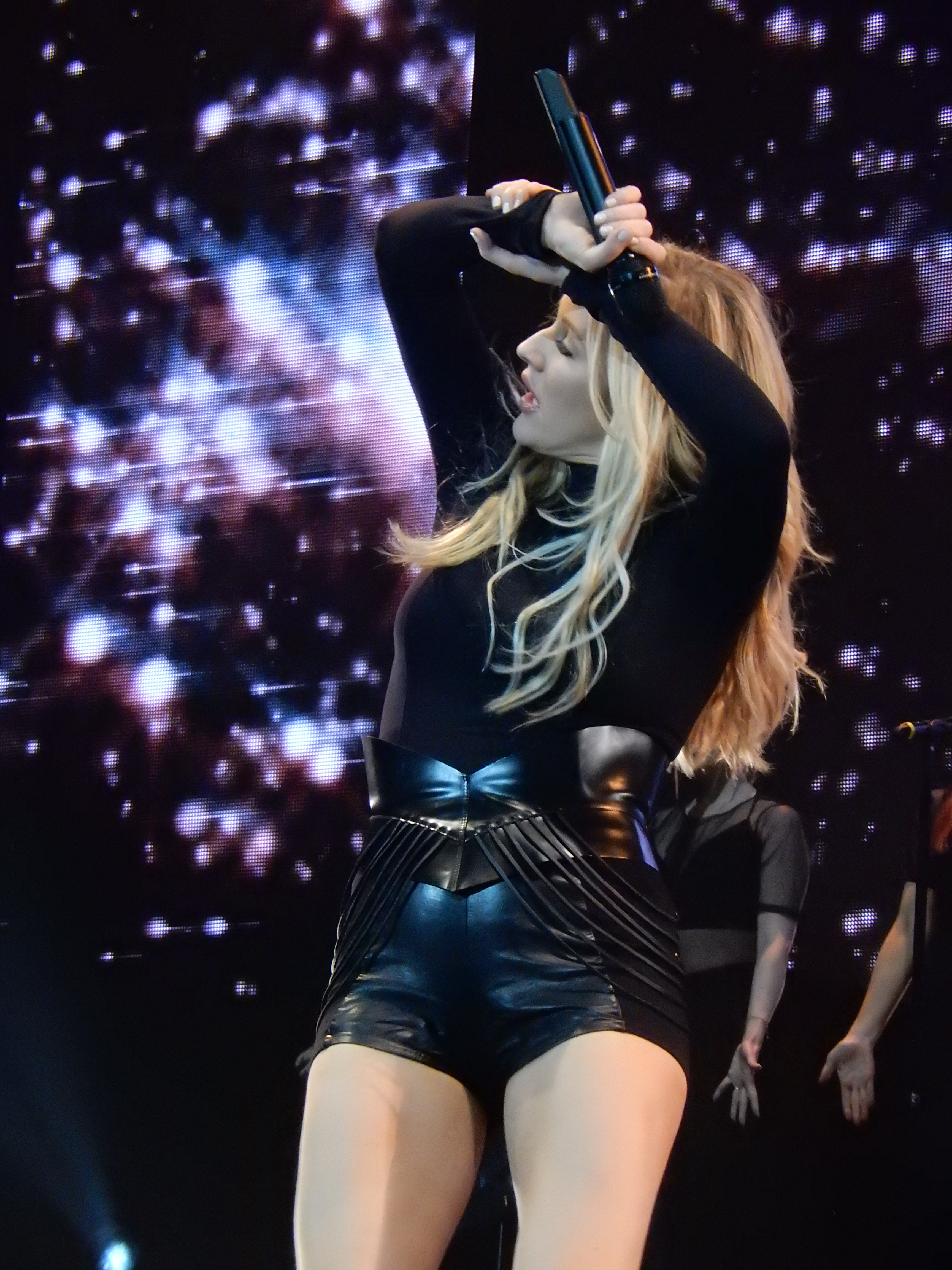 Ellie Goulding, O2 Arena, London